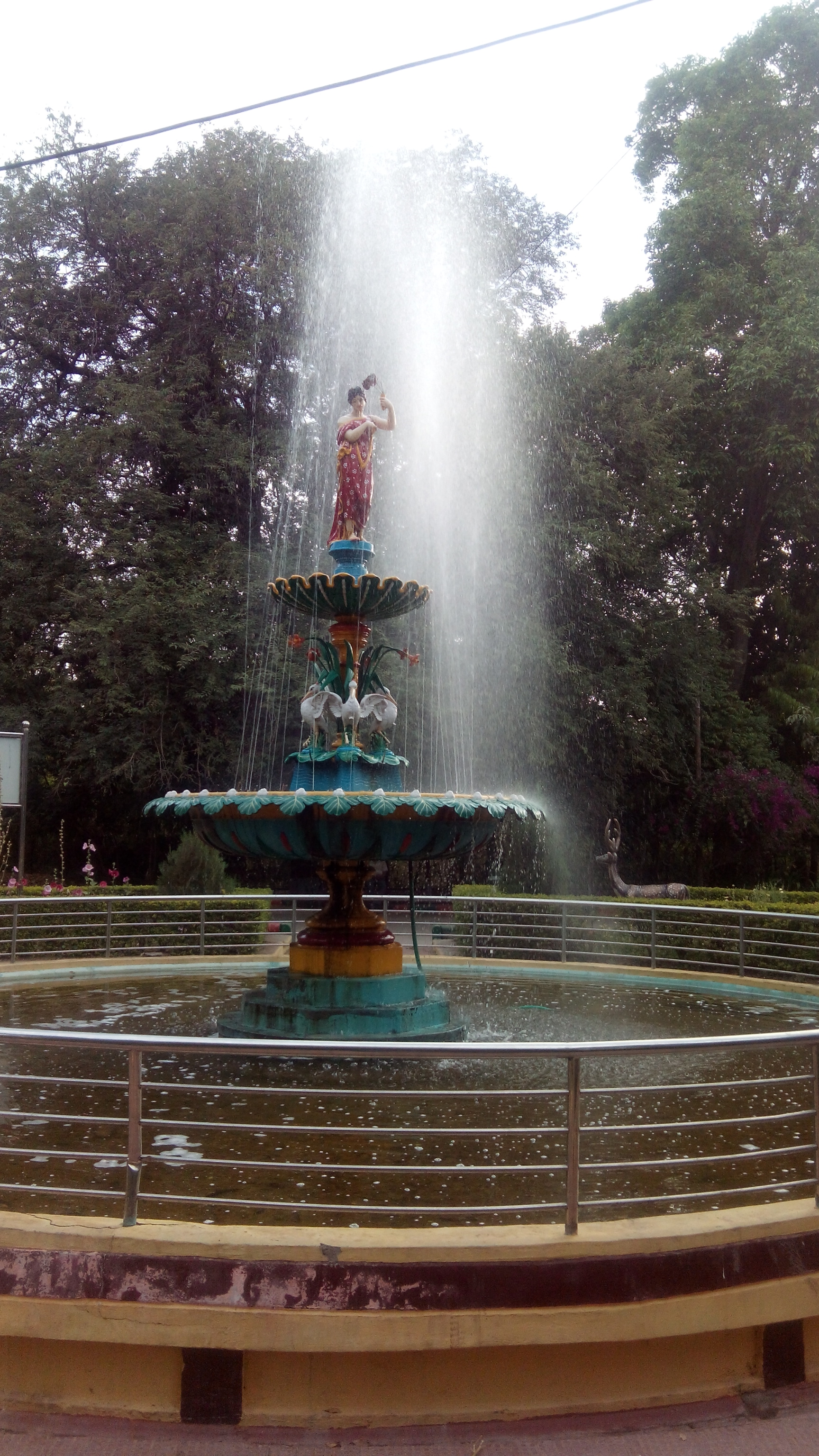 A picture taken at Gulab Bagh garden, showing view of a three tier fountain, having a portray of women with a pot at the top.